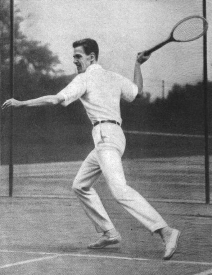 Photograph of Willis E. Davis, tennis player from San Francisco, California, taken in 1916.